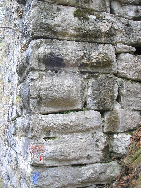 Hohenwaldeck castle (Schliersee-Fischhausen, Landkreis Miesbach, Upper Bavaria, Germany). Medieval rustication at the keep